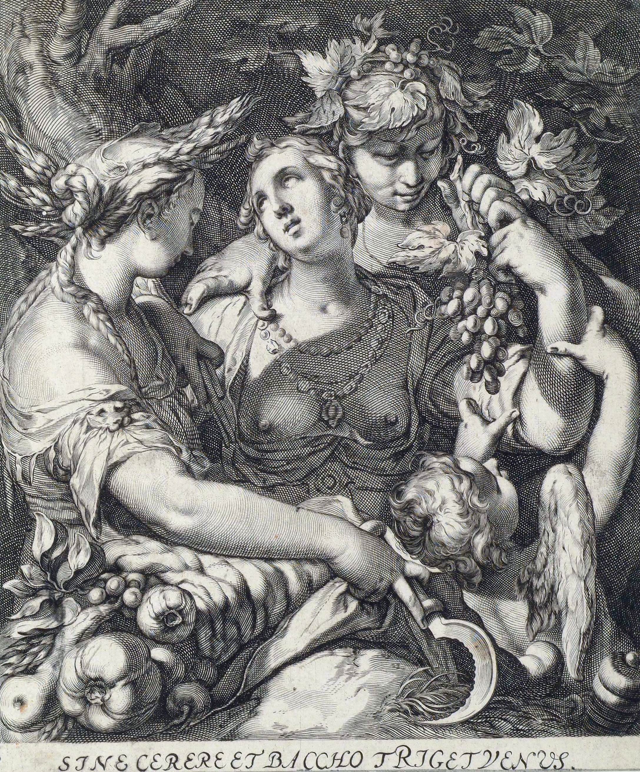 SINE CERERE ET BACCHO FRIGET VENUS (Without Ceres and Bacchus, Venus will freeze) "etching 228 x 200 mm, Mazzucchelli Museum, Ciliverghe di Mazzano (BS)" per original upload, with "Hubert Goltzius (1526-1583)" and date ca 1580. In fact it is a variant in reverse of this print, also here, by Jan Saenredam, after a design by Abraham Bloemaert. Details and categories amended accordingly